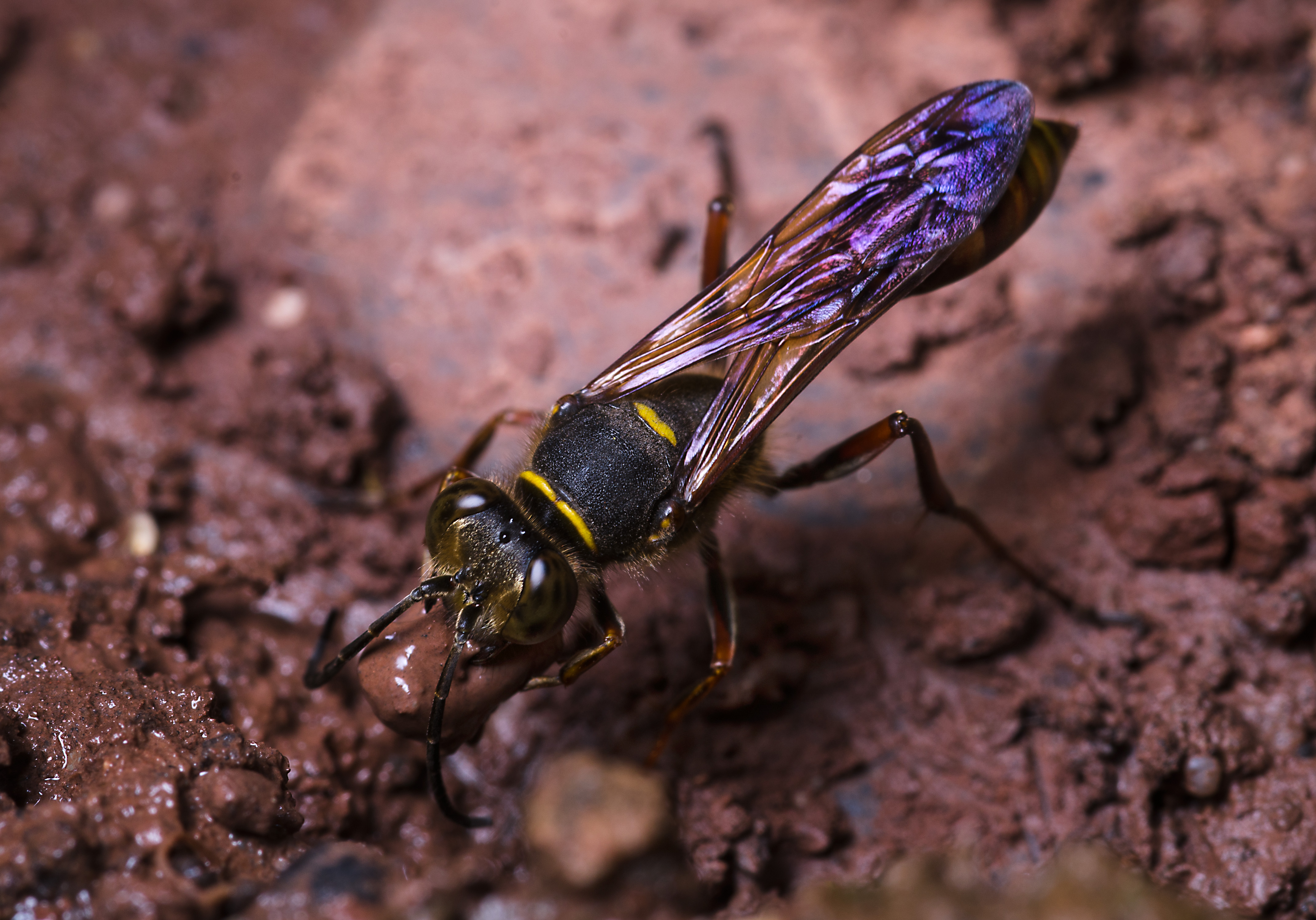 Sceliphron curvatum collecting clay for building its nest, picture taken in Stuttgart, Germany